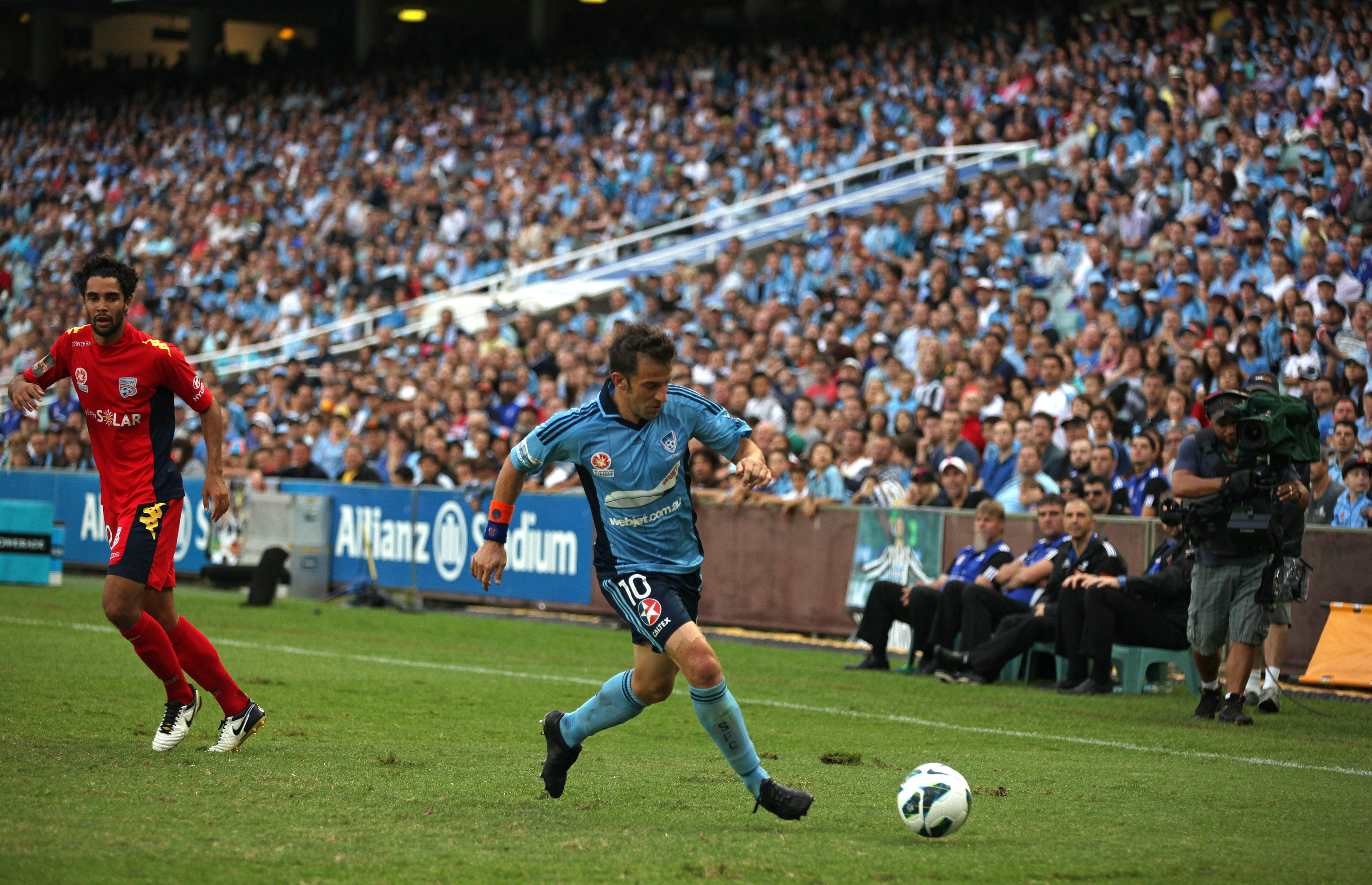 Alex Del Piero playing for Sydney FC